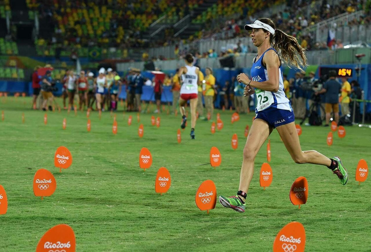 Claudia Cesarini in laser run competition at Rio 2016